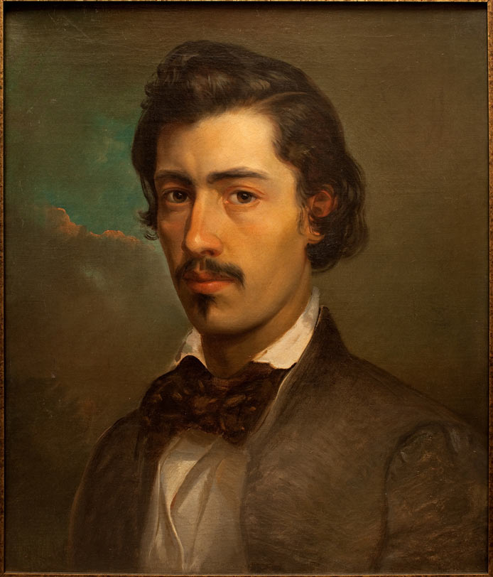 Carlo Brioschi: Self Portrait, Oil on canvas, 45 x 35 cm